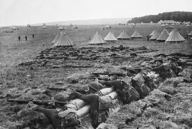 LUPCOMBE CORNER, SALISBURY PLAIN, ENGLAND. 1940-06-25. TROOPS OF 2/10TH BATTALION AIF TRAINING IN A TRENCH WITH RIFLES IN FIRING POSITION. TENT LINES IN BACKGROUND.